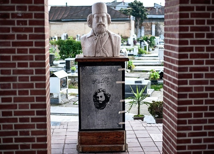 Mausoleum of Mirza Kuchik Khan